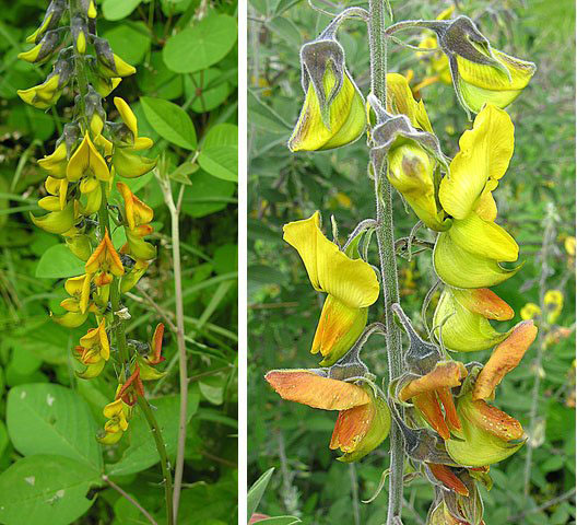 A widespread species from eastern Africa. Photo from southern Mexico. Known in English as the Canarybird Bush.